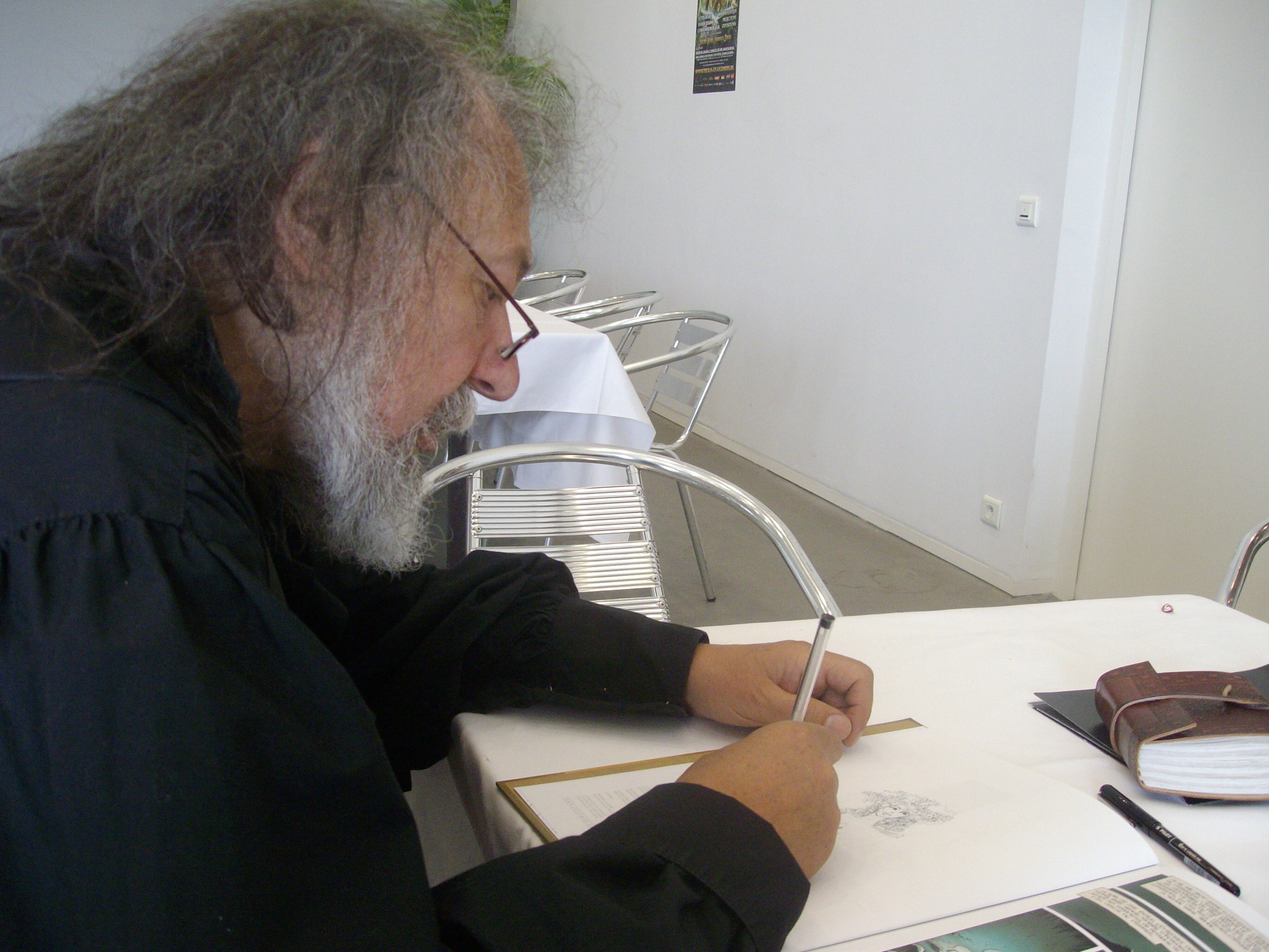 Pierre Dubois